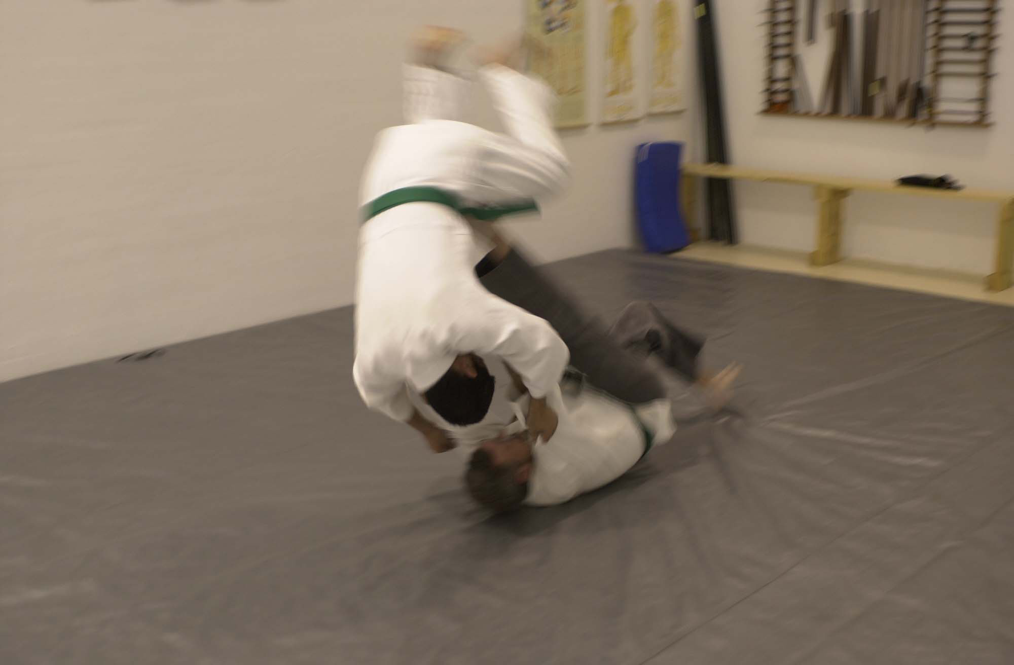 A sacrifice throw in jiu-jitsu. MARINE CORPS BASE CAMP LEJEUNE, N.C. – Practicing various moves of the Jujitsu martial art form, instructor, Wayne E. Nelson, a fifth degree black belt, performs a throw on his son and student Kris W. Nelson, an Okinawa, Japan, native. Younger Nelson is a green belt student who has been training for 13 months. No matter what the size of the opponent, flips and throws can be effective for even the smallest of people.